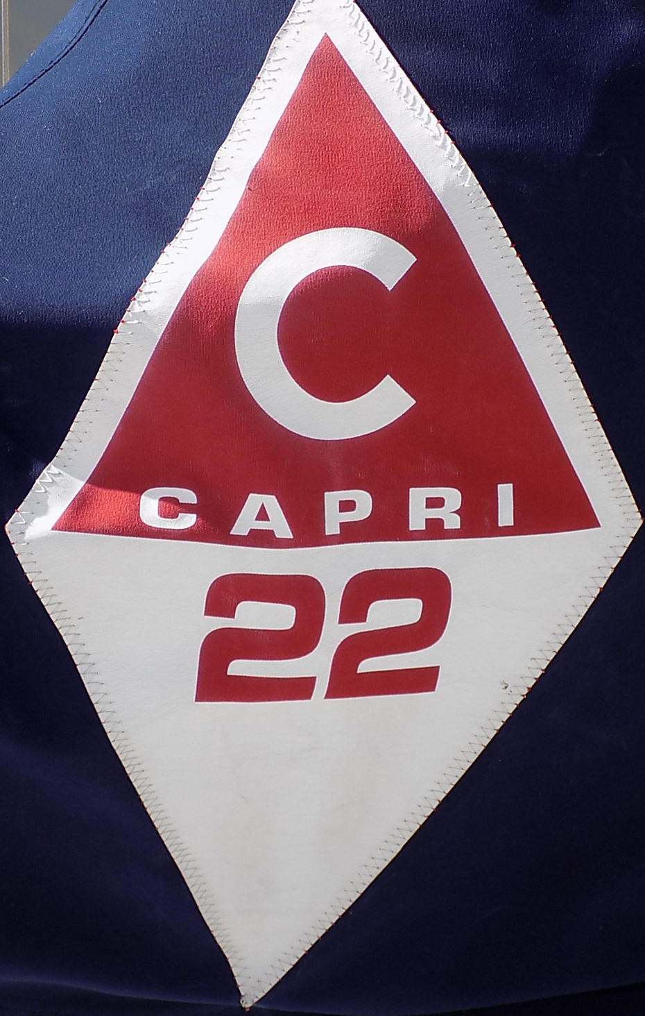 The Capri 22 class sail badge.